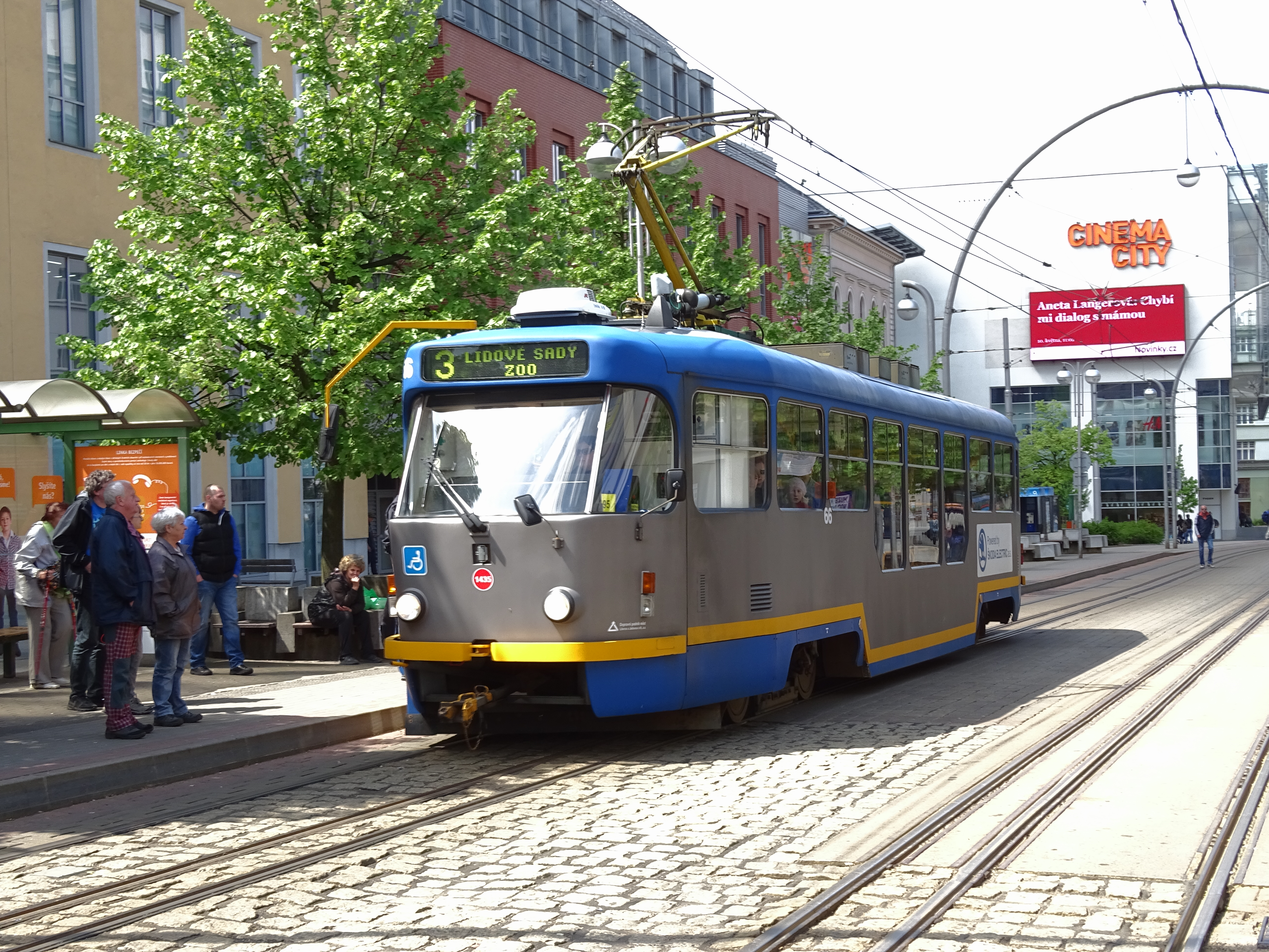 Liberec IV-Perštýn, Liberec District, Liberec Region, Czech Republic. Fügnerova street, tram stop Fügnerova, a tram.